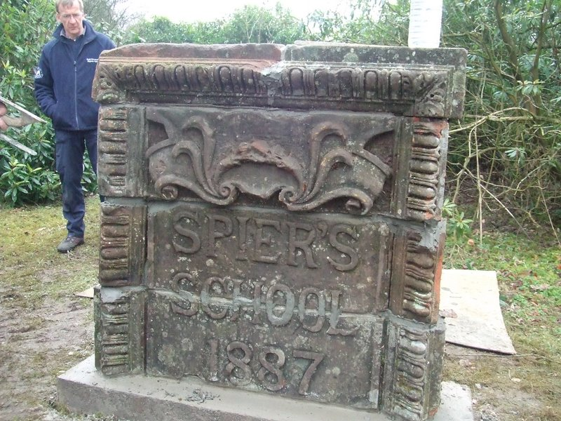 Spier's School Memorial under erection at Spier's - recovered from Garnock Academy. Beith, North Ayrshire, Scotland.